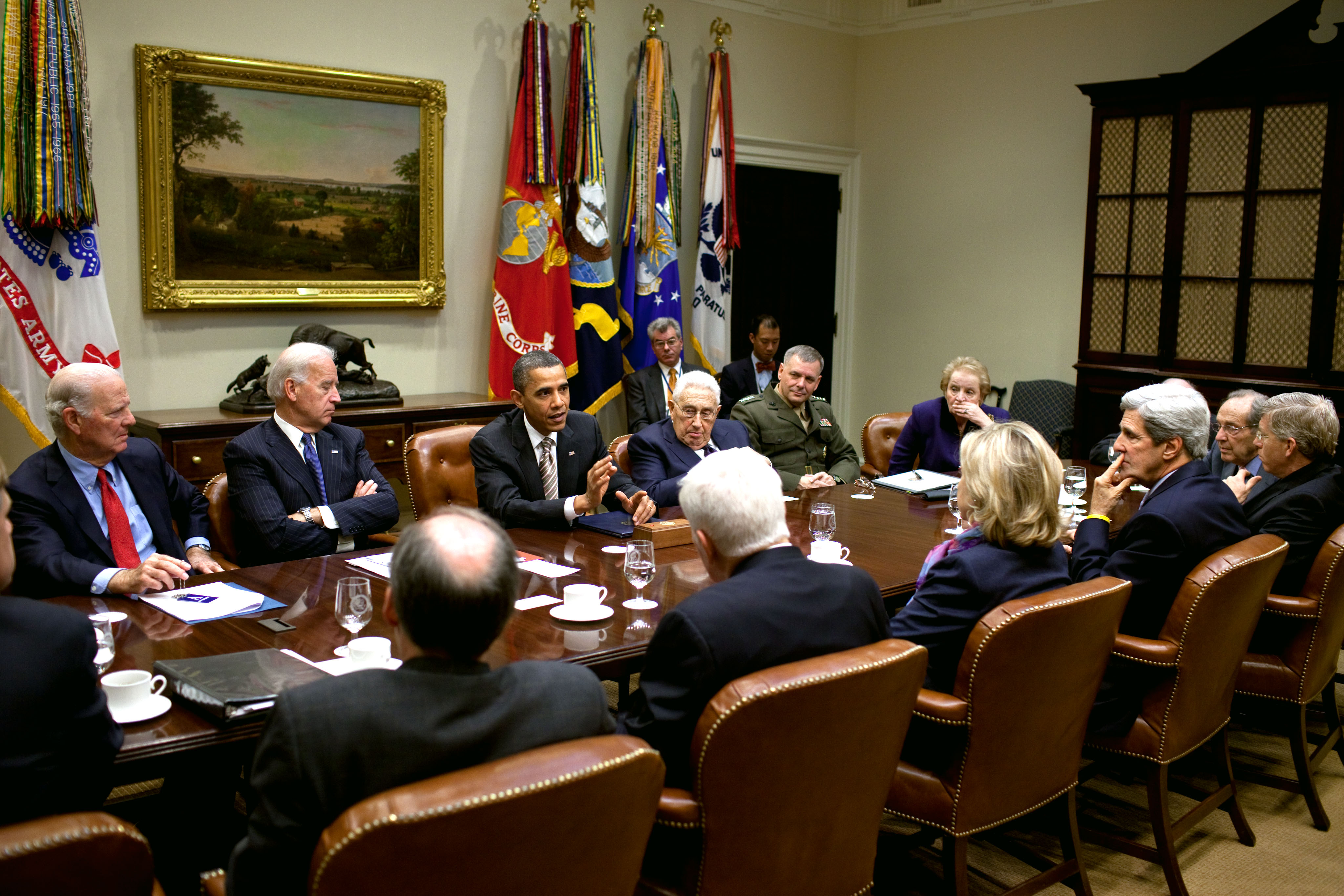 President Barack Obama attends a New START Treaty meeting hosted by Vice President Joe Biden in the Roosevelt Room of the White House, Nov. 18, 2010. Seated with them, clockwise from left, are: former Secretaries of State James A. Baker III and Dr. Henry A. Kissinger; Vice Chairman Joint Chiefs of Staff Gen. James E. Cartwright; former Secretary of State Dr. Madeleine Albright; former National Security Advisor Gen. Brent Scowcroft; former Secretary of Defense Dr. William Perry; Deputy Secretary of Energy Daniel B. Poneman; Senator John F. Kerry, D-Mass; Secretary of State Hillary Rodham Clinton; Senator Richard G. Lugar, R-Ind.; Deputy Assistant to the Vice President for National Security Affairs Brian P. McKeon. (Official White House Photo by Pete Souza) This official White House photograph is in the public domain from a copyright perspective, so while restrictions such as personality or privacy rights may apply, in general, manipulations are allowed.